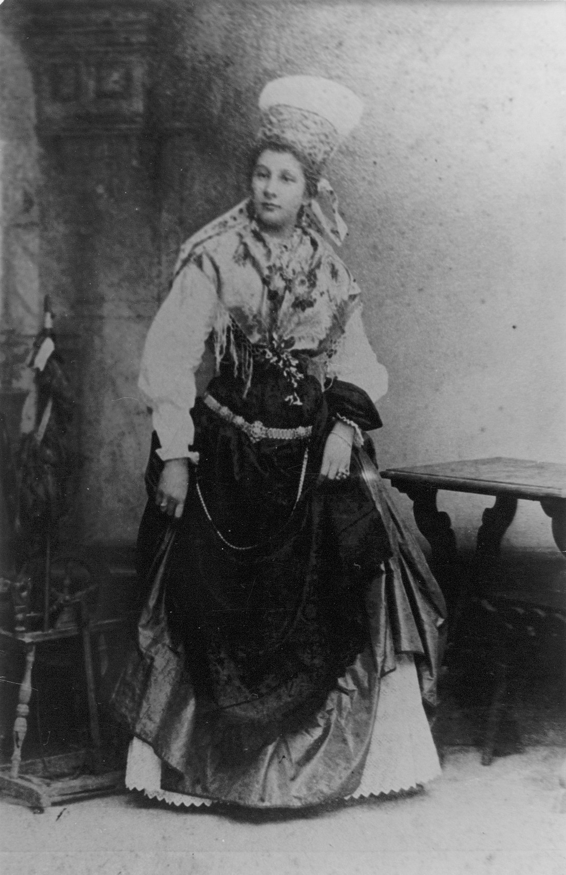 Franja Verhunc (1874-1944), slovene vocalist.